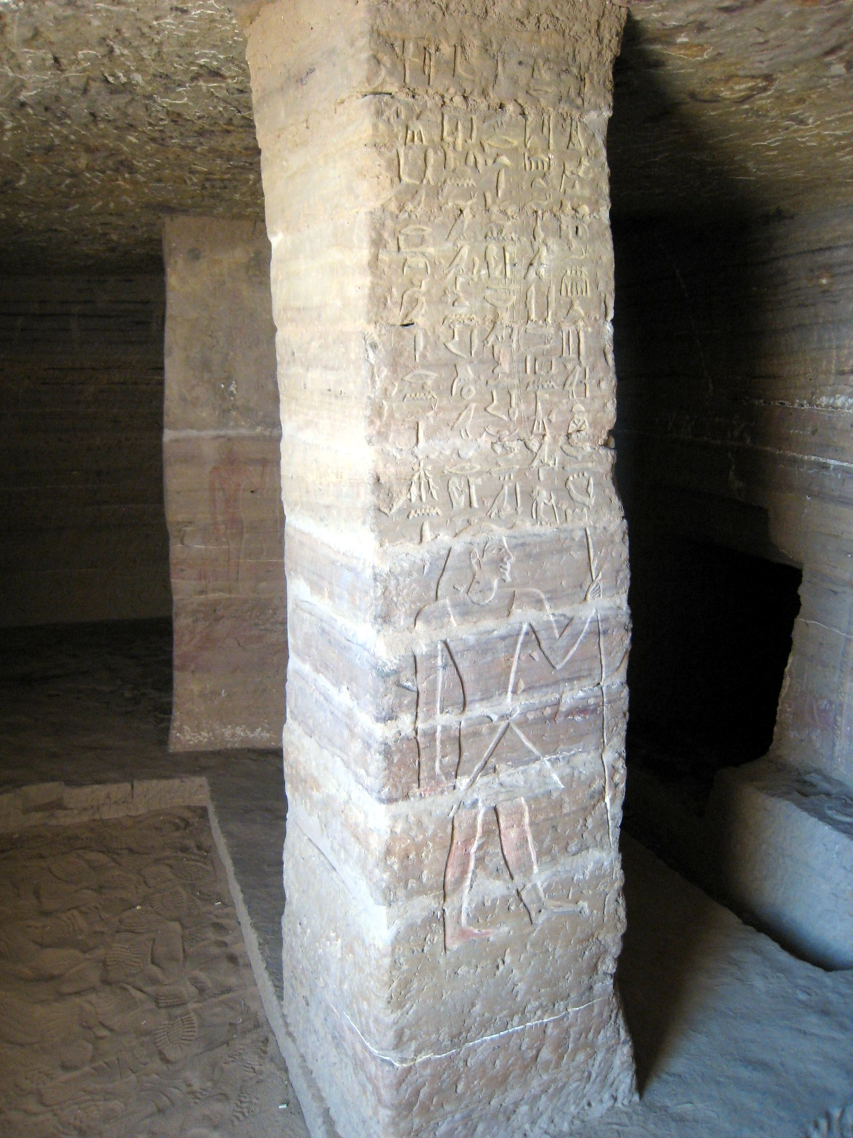 Qubbet el-Hawa IMG_6386